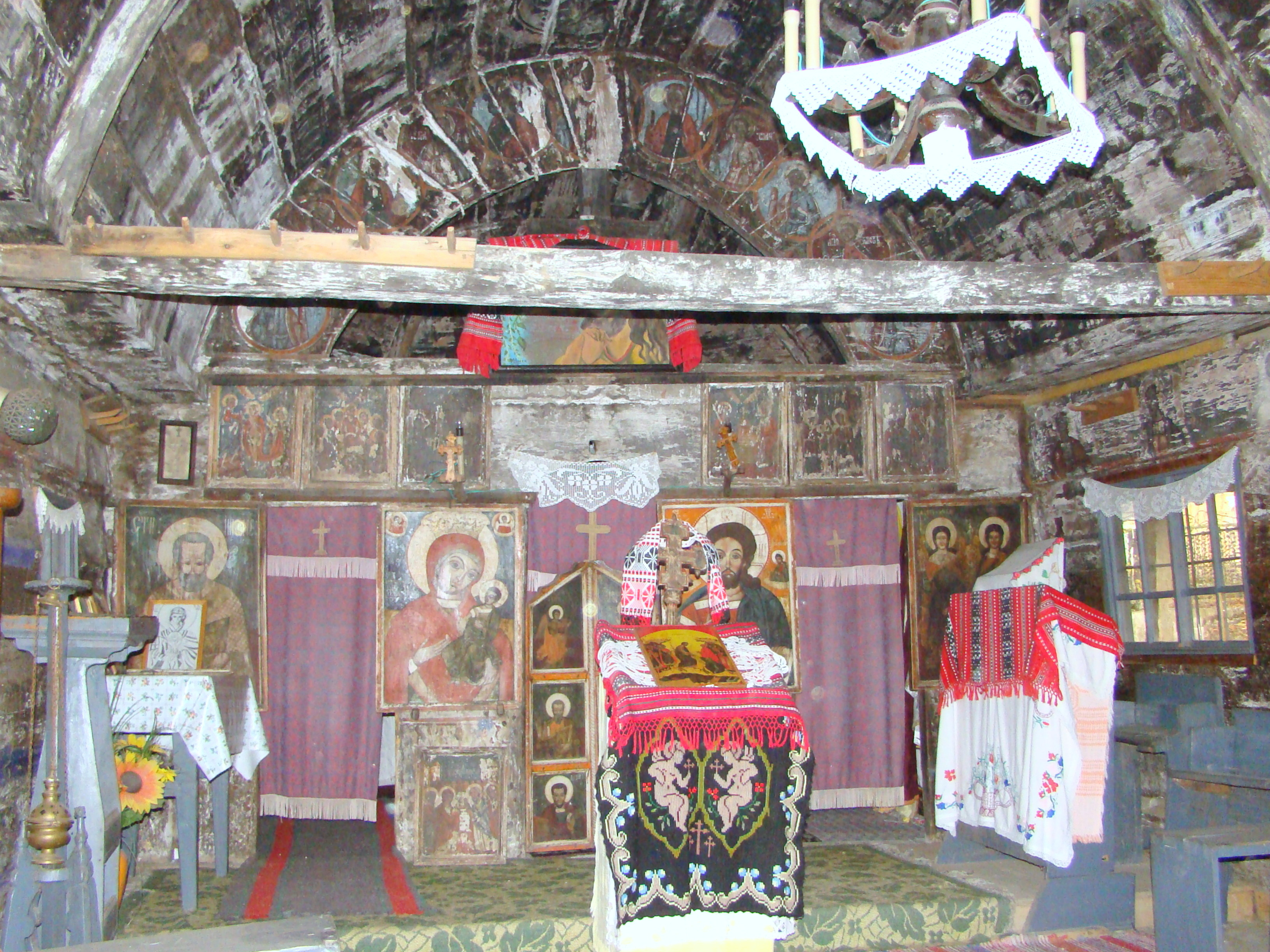 Wooden church in Petea, Mureş county, Romania